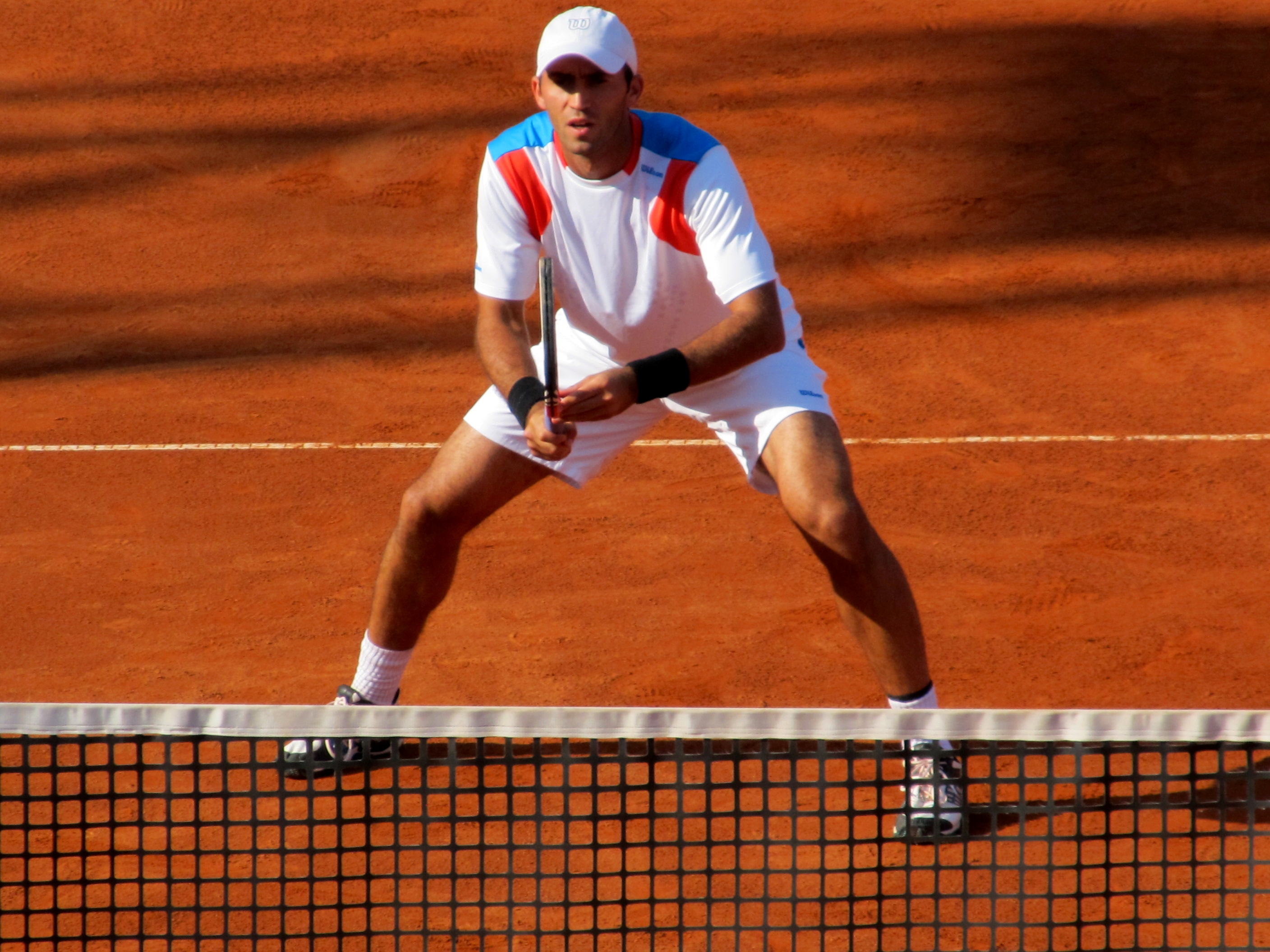 Horia Tecău playing at the 2012 BRD Năstase Țiriac Trophy